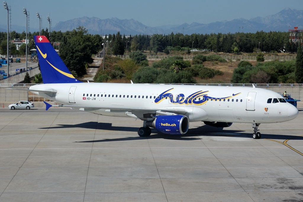 Airbus A320-214 Hello, Antalya Airport